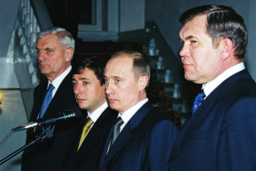 KRASNOYARSK. A news conference following the meeting to discuss the socio-economic development of the Krasnoyarsk Region.